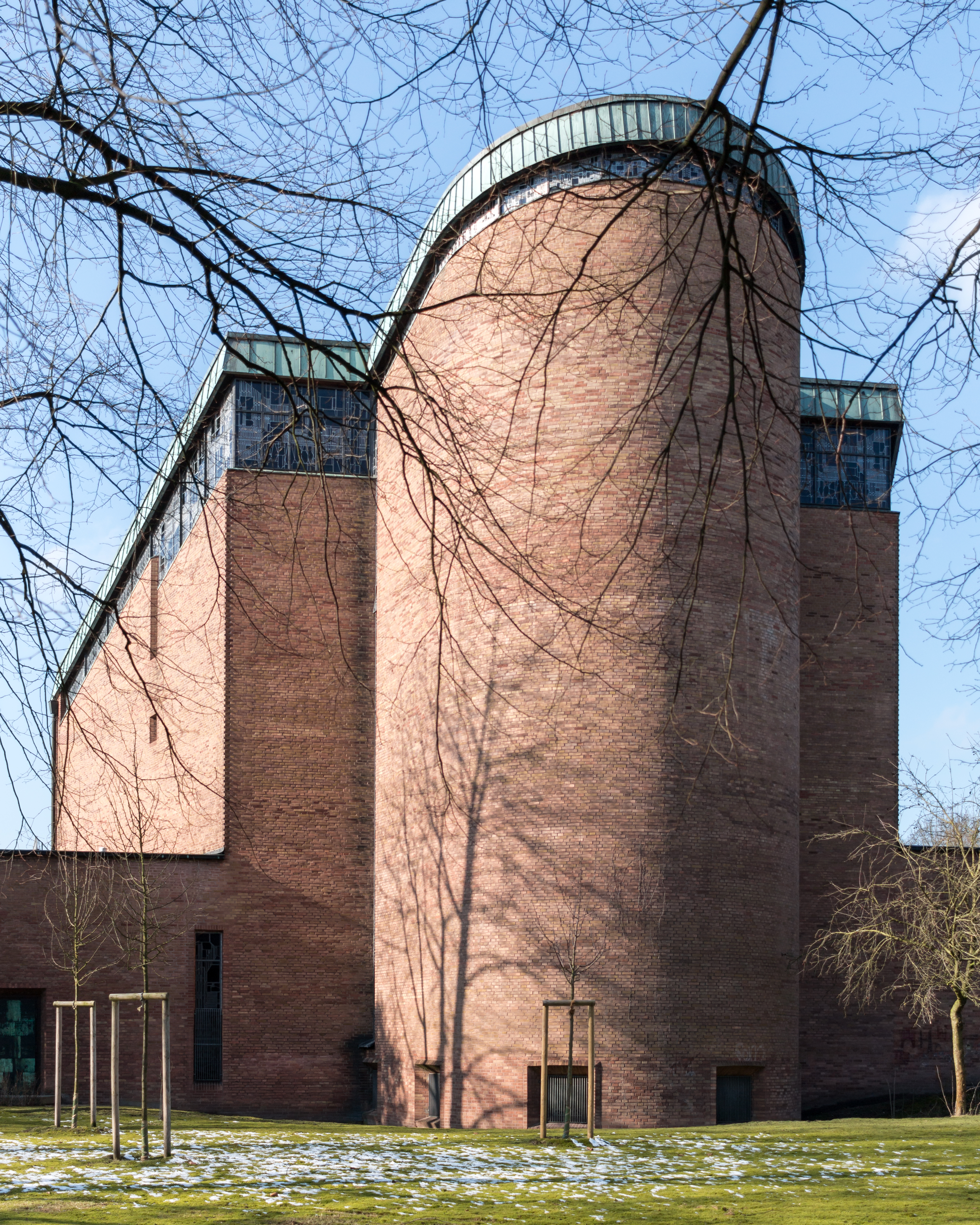 St. Stephen's Church, Münster, North Rhine-Westphalia, Germany This image shows a heritage building in Germany, located in the North Rhine-Westphalian city Münster.